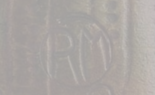 foundry stamp Rosenthal & Maeder